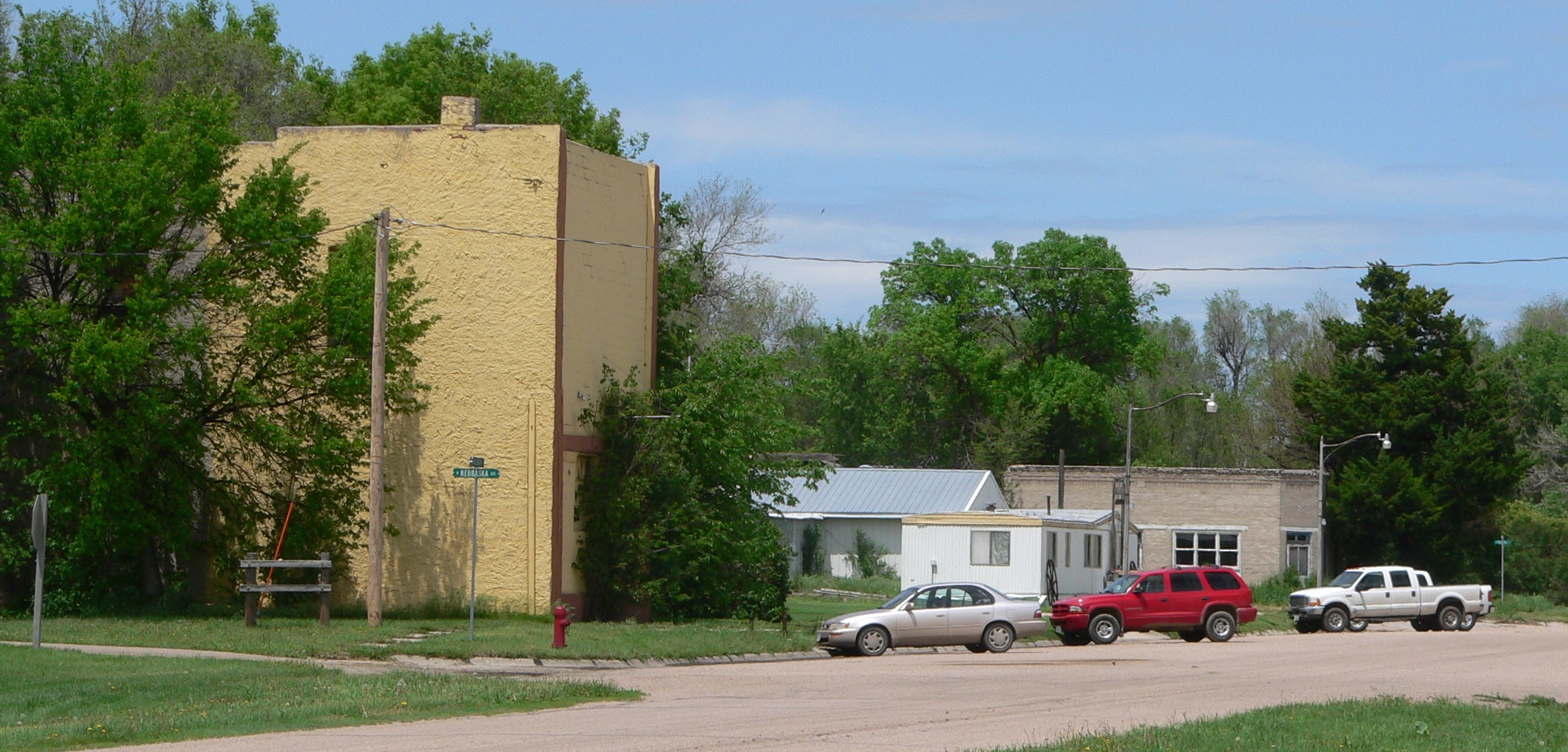 Downtown Stockville, Nebraska: west side of Wellington Street, looking northwest from south of Nebraska Avenue.